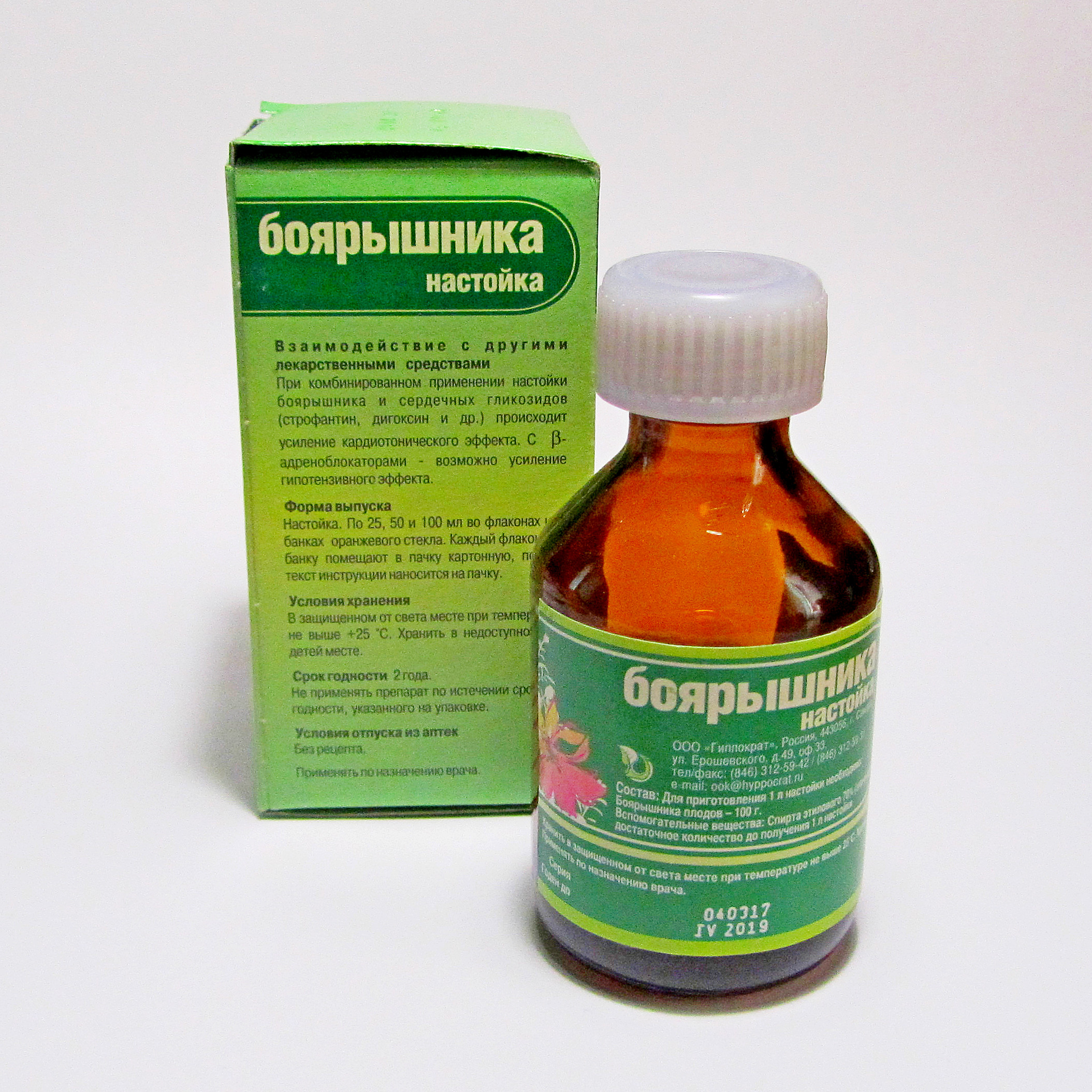 Crataegus. Tincture. Photo by Alexey Schekinov.